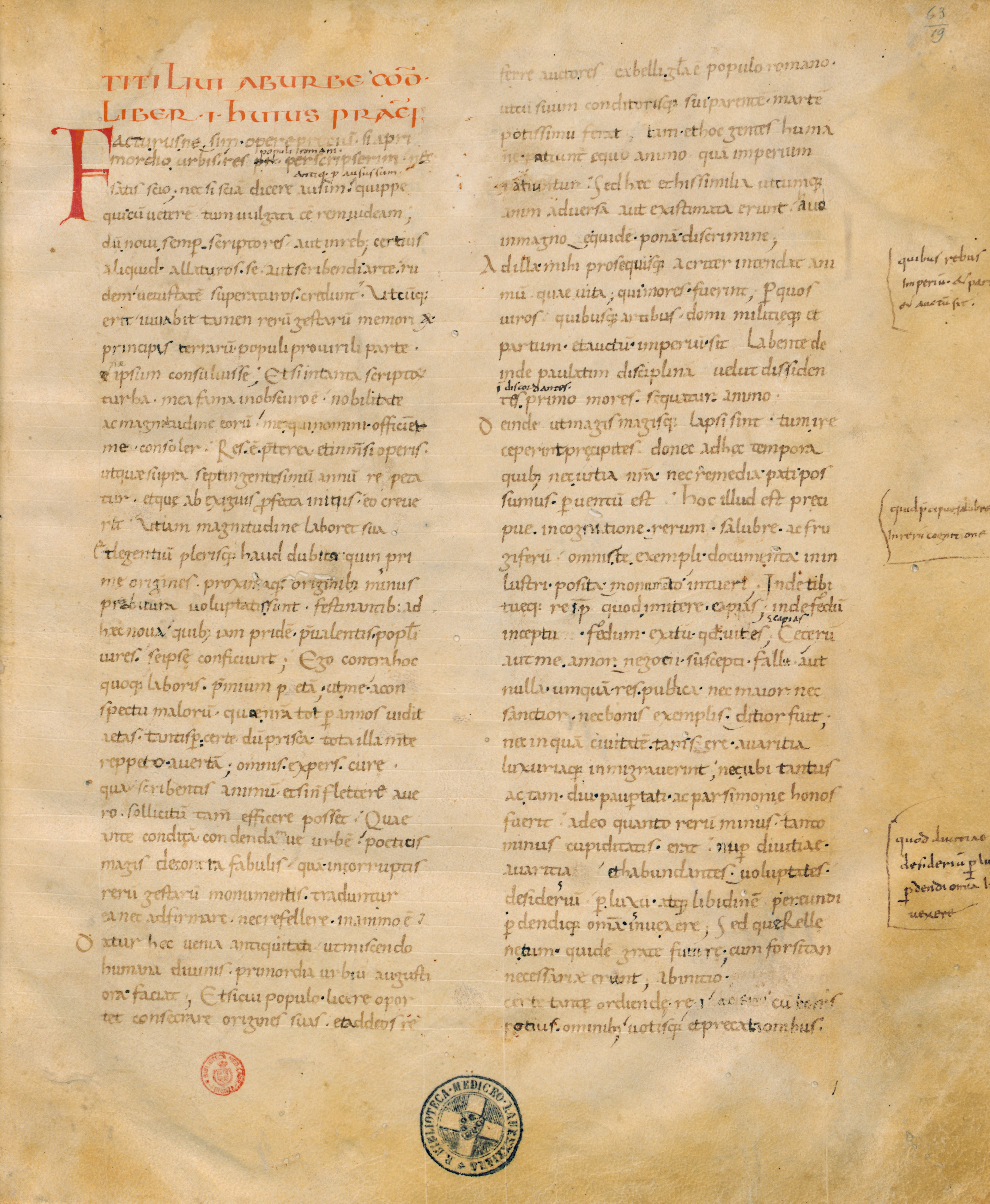 Livius, Ab urbe condita, 10th-century manuscript. Florence, Biblioteca Medicea Laurenziana, Plut. 63.19, fol. 1r.